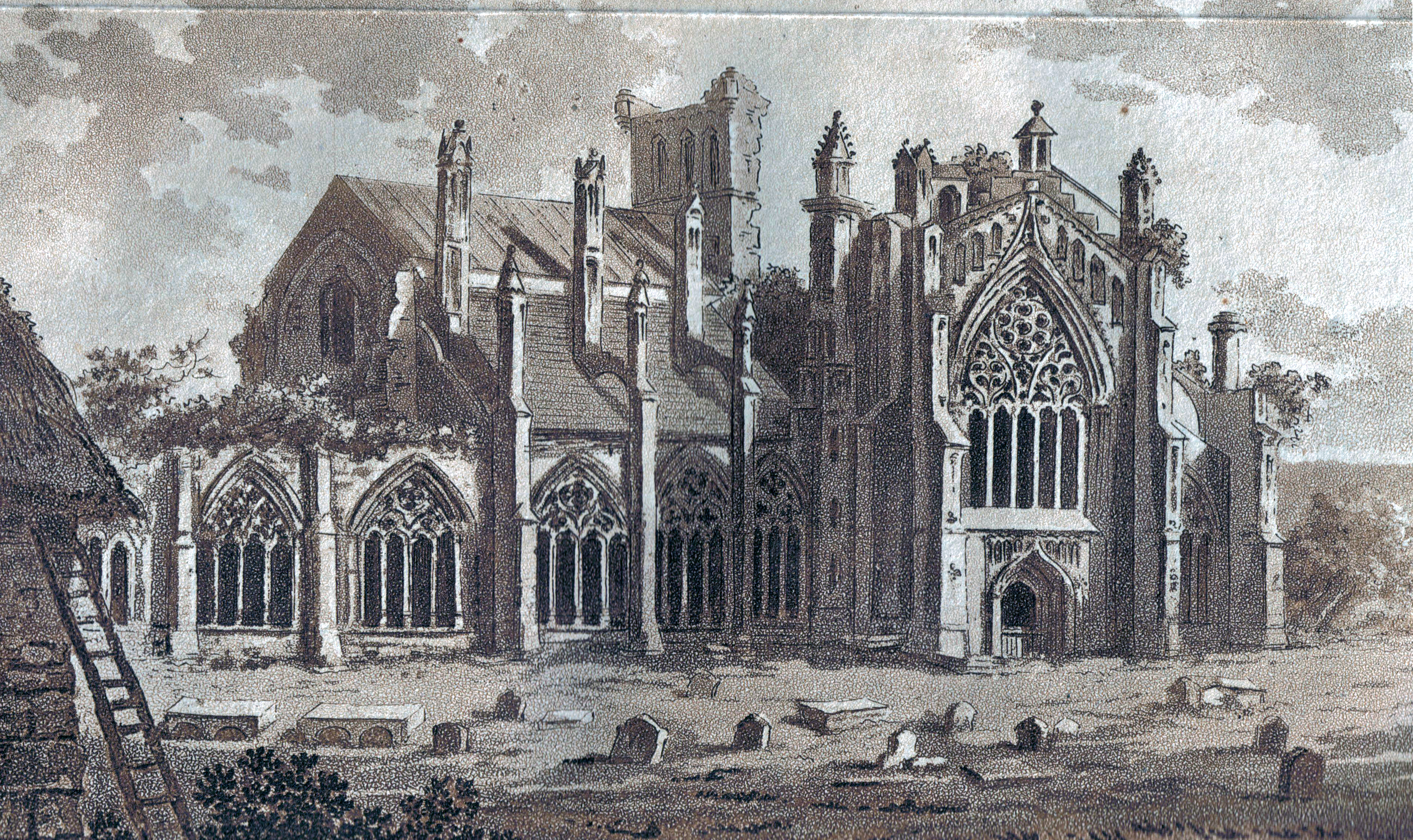 Melrose Abbey, Scotland in 1800. Stoddart, John (1801), Scenery & Manners In Scotland.